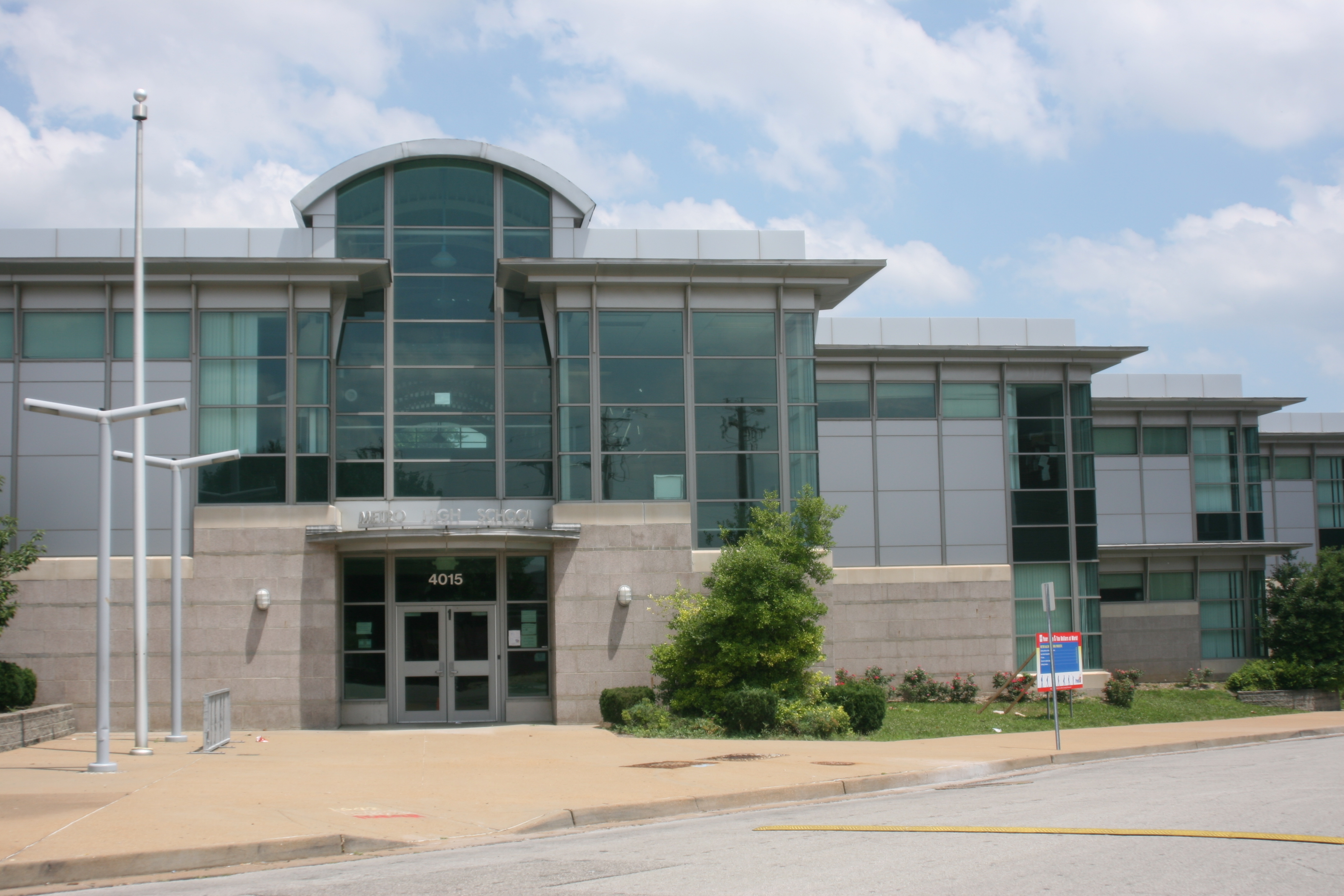 Metro High School - Best in Missouri